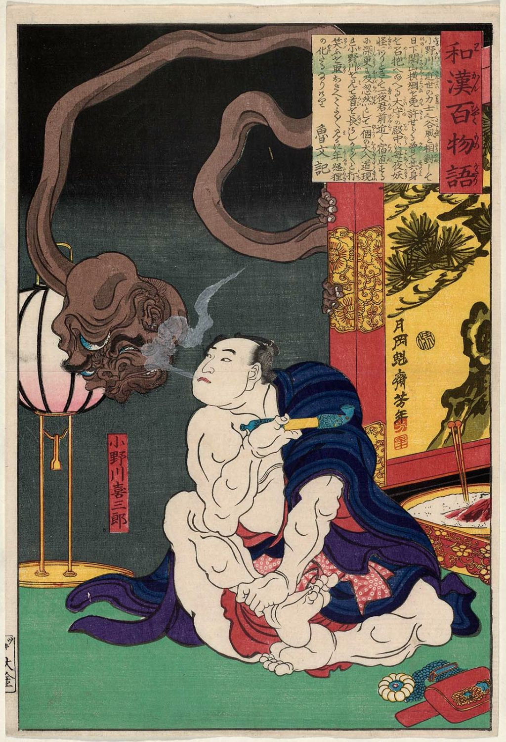 Sumo wrestler Onogawa Kisaburō blowing smoke at a monster